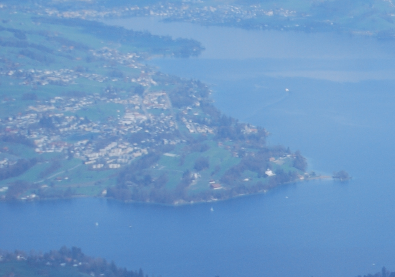 Meggen seen from Pilatus, Cantone Lucerne, Switzerland.